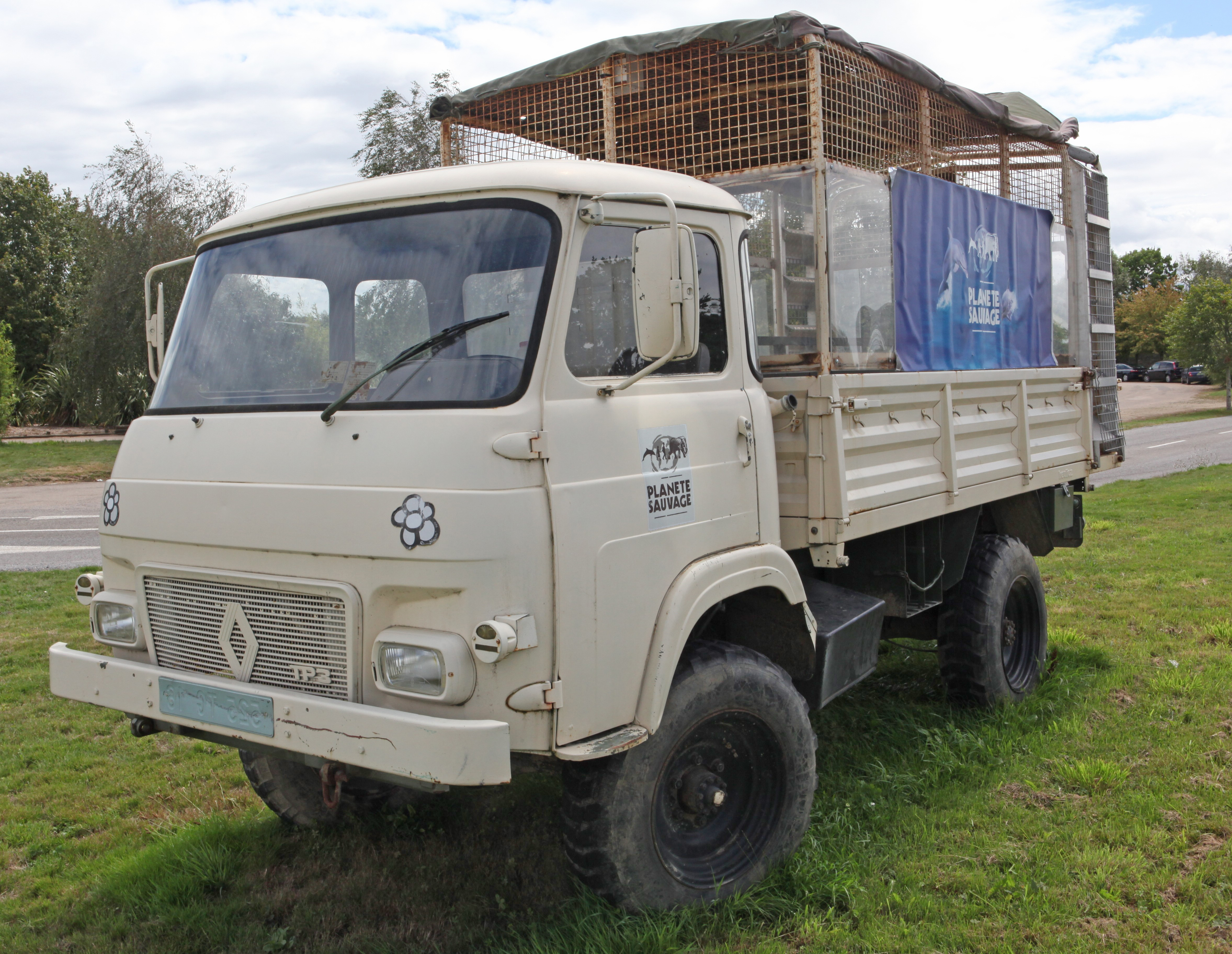 Saviem TP3 from the Planète Sauvage Safari park.